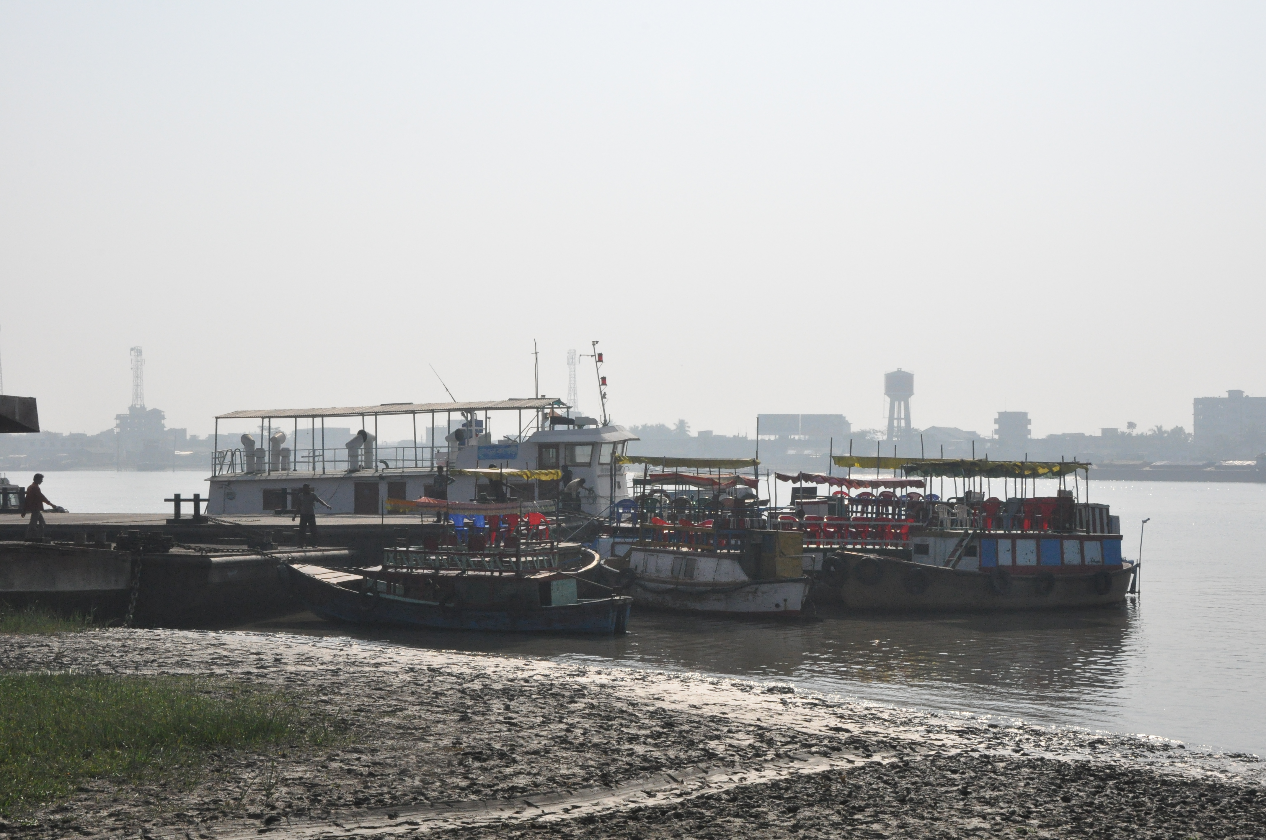 CBA site visit to Mongla, Bangladesh.